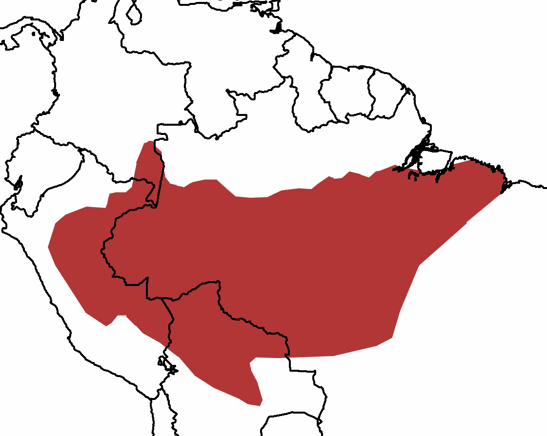 The Razor-billed Curassow's Distribution.